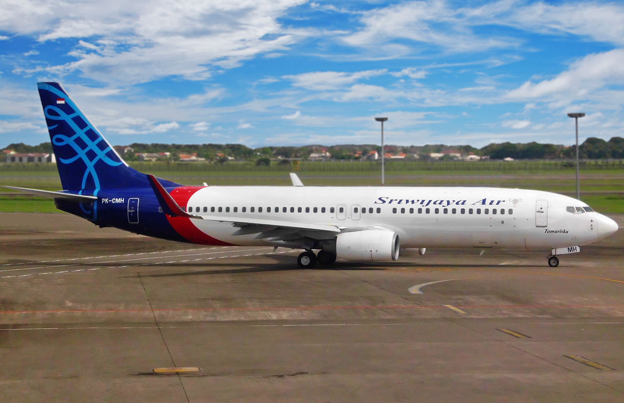 Sriwijaya Air 737-800NG